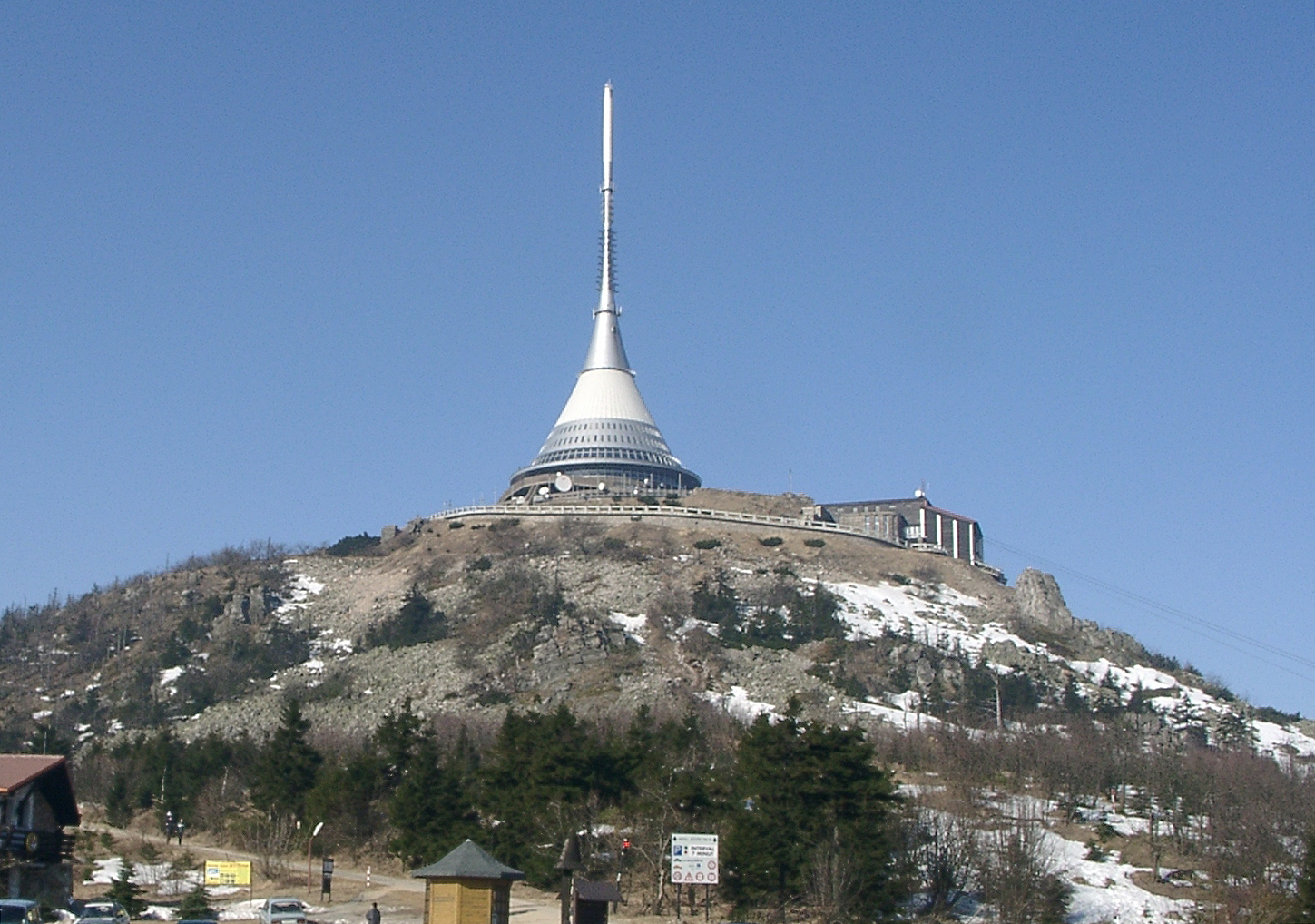 Ještěd mountain, north of the Czech Republic